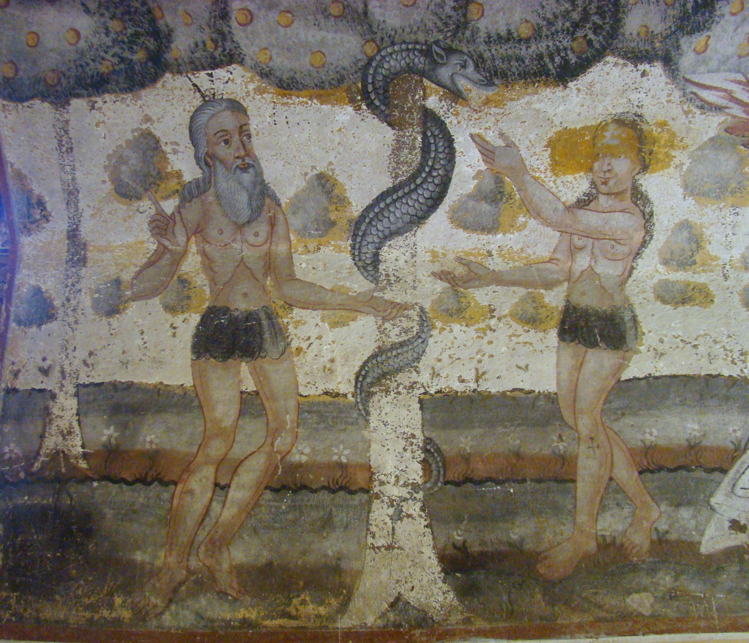 Church of the Annunciation in Trestia, Hunedoara county, Romania